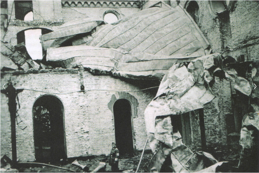 Photo of the synagogue of Ciesczyn/Teschen destroyed in 1939 by the nazis.